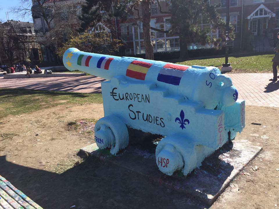 The cannon, "old Jeremiah", painted by the European Studies students association.